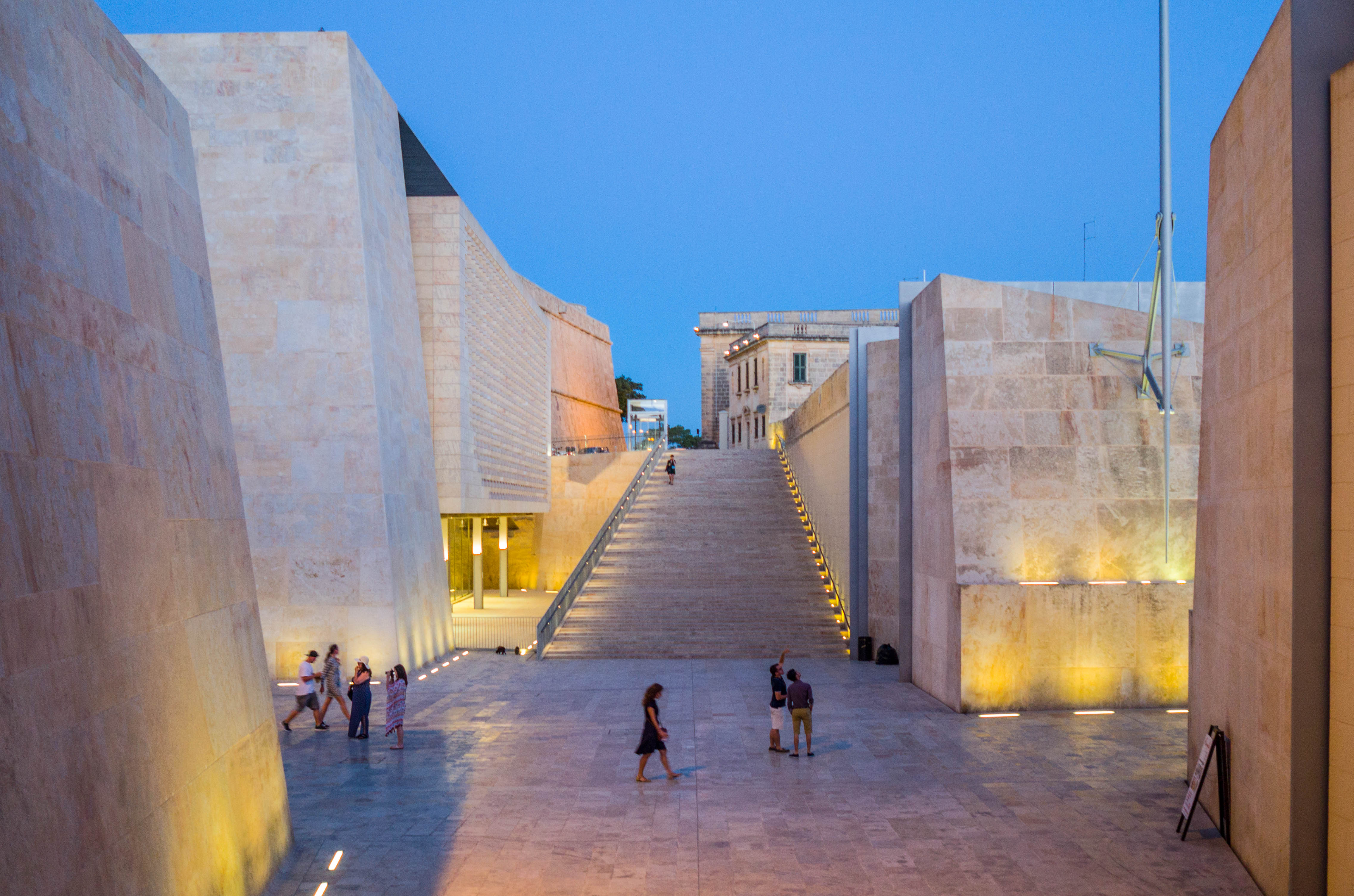 piano at dusk